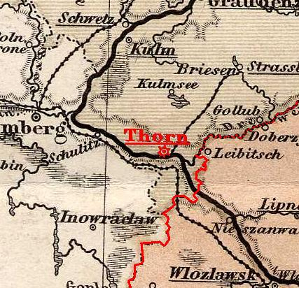 Toruń (Thorn) near the Prussian/Germany and Russian border in the late 19th century.